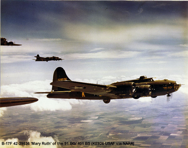 B-17F-60-BO Flying Fortress Serial 42-29536 Mary Ruth, Memories of Mobile, 401st Bomb Squadron, 91st Bombardment Group, based at RAF Bassingbourn, England. This aircraft was shot down by fighters over Hüls, Germany, June 22, 1943, with 2 killed and 8 captured